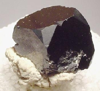 Bixbyite Locality: Thomas Range, Juab County, Utah, USA (Locality at ) Size: 1.1 x 1.1 x 0.9 cm. A beautiful, sharp and lustrous, 9 mm, jet-black bixbyite crystal with modified octohedral corners and nicely perched on rhyolite matrix from Utah. Complete all-around, with only a trivial bit of contacting at the base of the crystal on one side. Ex. Carl Davis Collection.